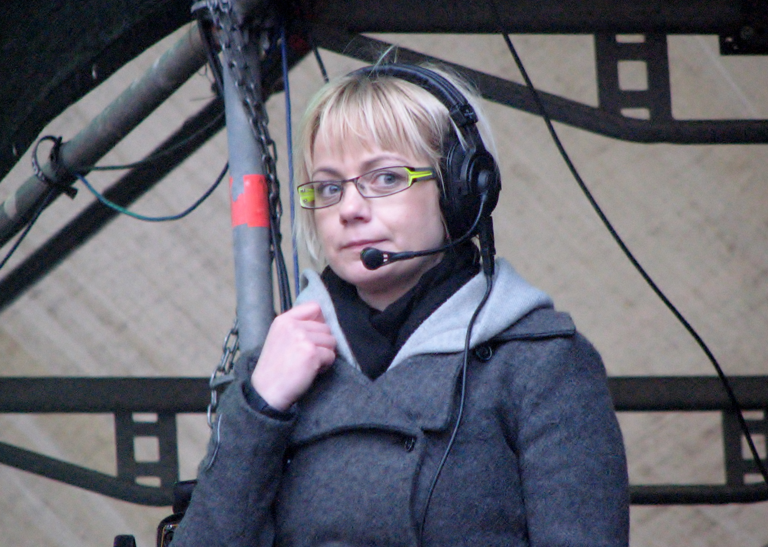 Estonian radio- and tv-journalist Kerli Dello during a concert